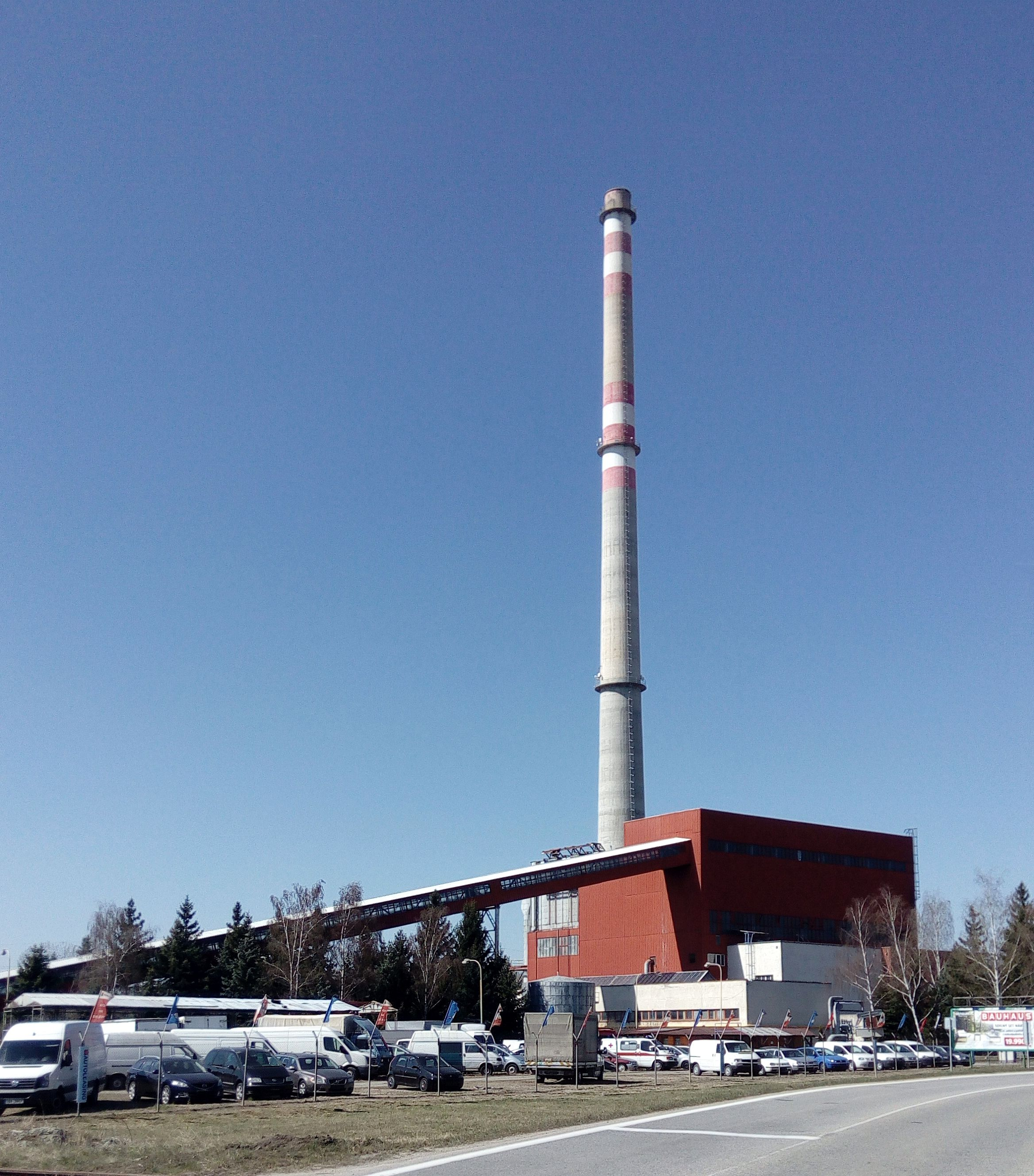 Heating plant in the city of České Budějovice, South Bohemian Region, Czechia